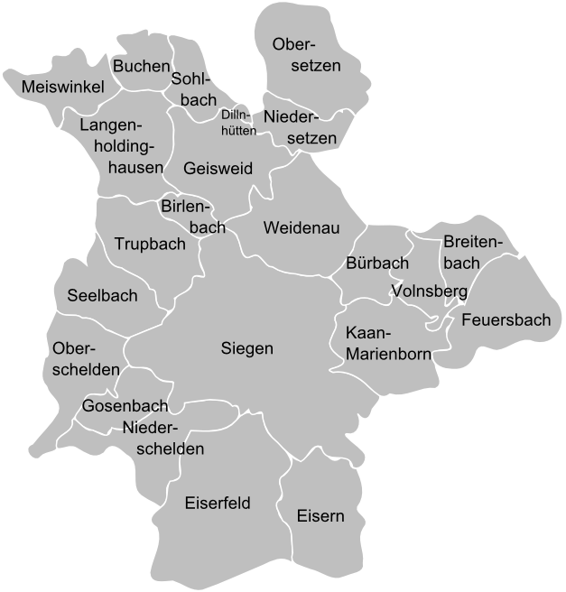 Divisions within the city Siegen, Germany. Red/Grey colors match the color scheme of Germany maps and information boxes in German Wikipedia. District is highlighted in red.